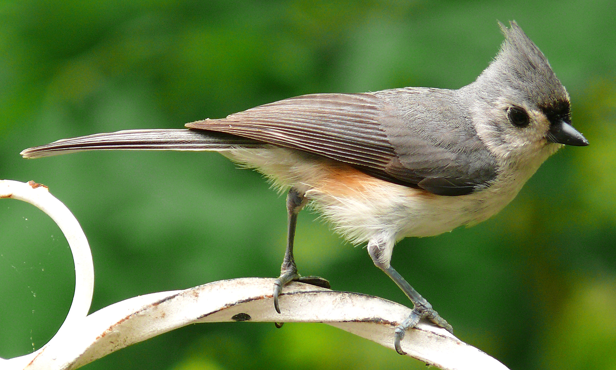 A Tufted Titmouse (Baeolophus bicolor).Photo taken with a Panasonic Lumix DMC-FZ50 in Johnston County, North Carolina, USA.